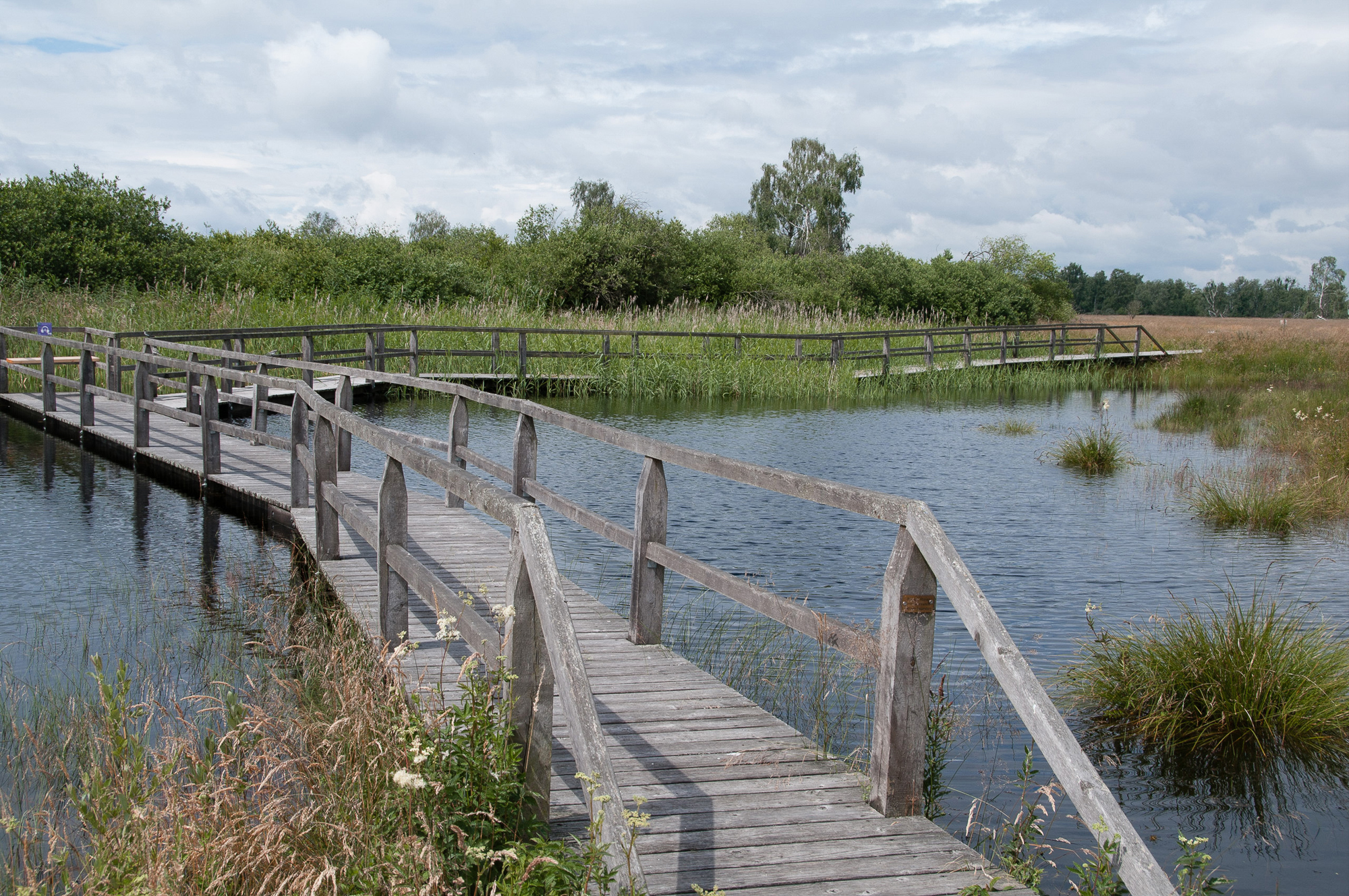 Naturschutzgebiet (NSG) „Leipheimer Moos“, Swabia (Bavaria), Bavaria. A special trackway guides people carefully through the protected area, thus saving the species’ habitat from disturbance.